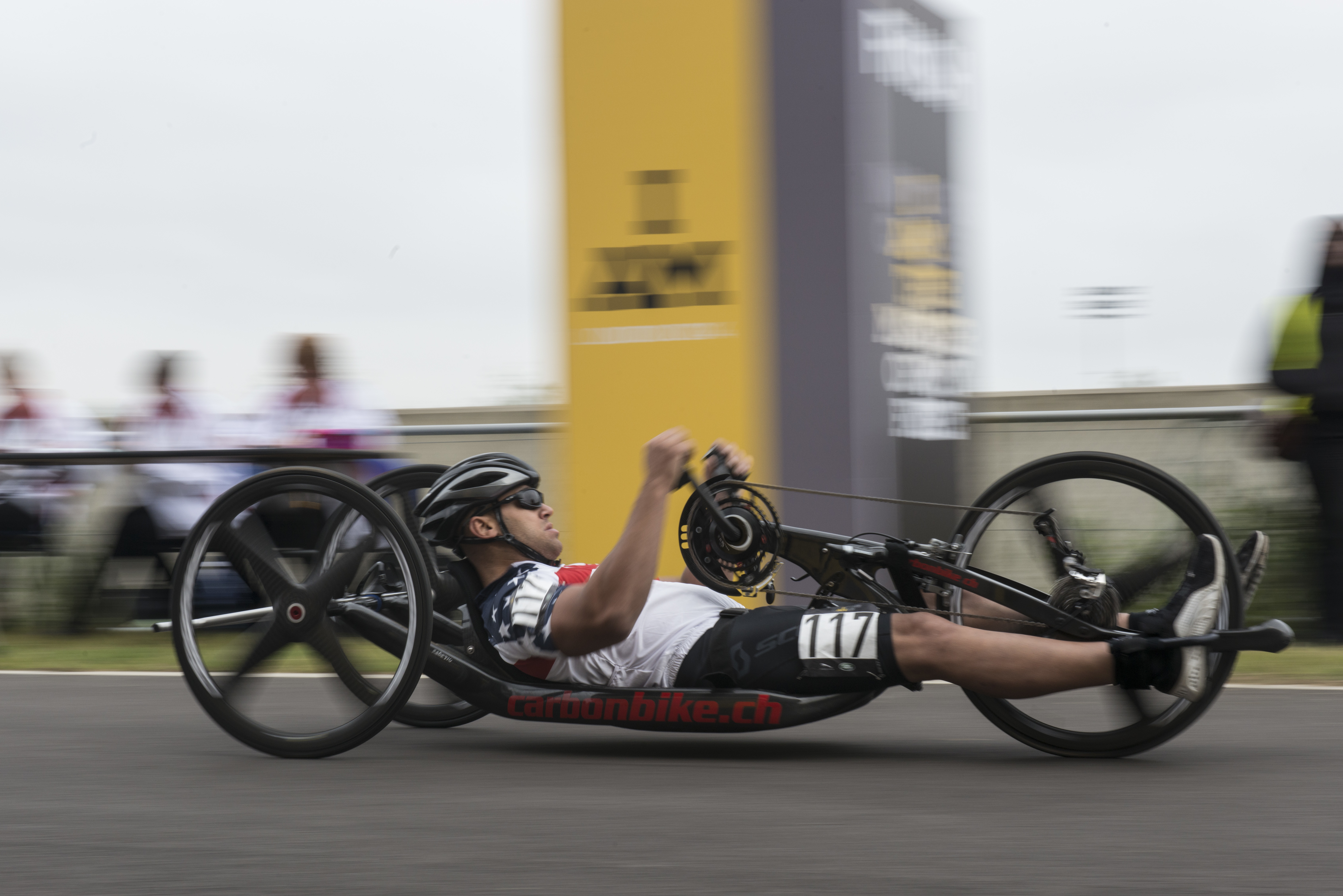 Retired U.S. Army Warrant Officer 1st Class Anthony Radetic won the silver medal in the Men’s Circuit Race Hand Bike Cycling event at the Invictus Games. Over 400 competitors from 13 nations took part in the Invictus Games, an international sporting event for wounded, injured and sick service members. (U.S. Navy photo by Mass Communication Specialist 1st Class (SW) Mark Logico/RELEASED)